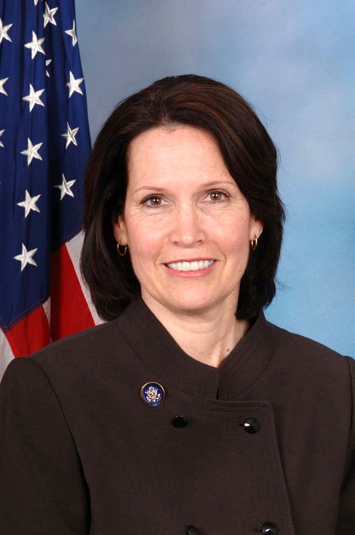 Representative Betty McCollum of Minnesota